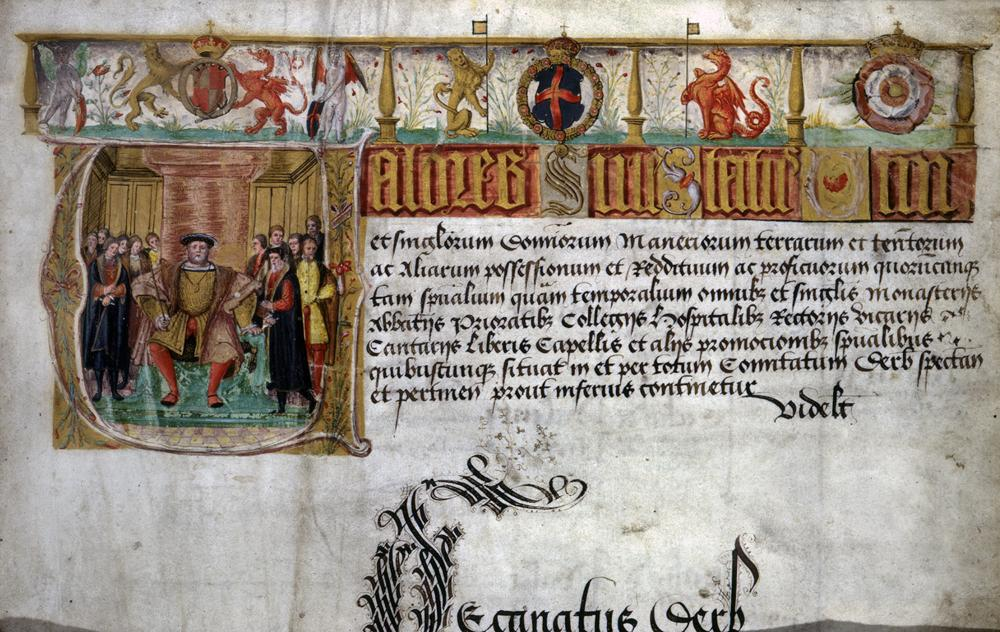 Illuminated title page of Valor Ecclesiasticus, the survey of the lands and wealth of England's monasteries prepared for Henry VIII.